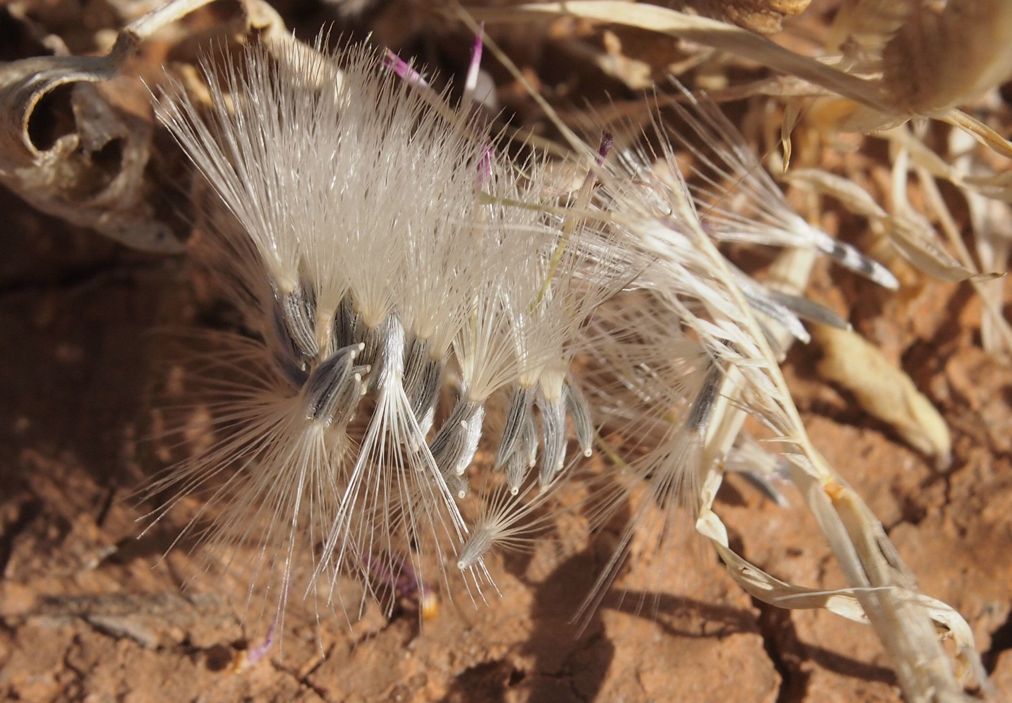 Streptoglossa adscendens achenes